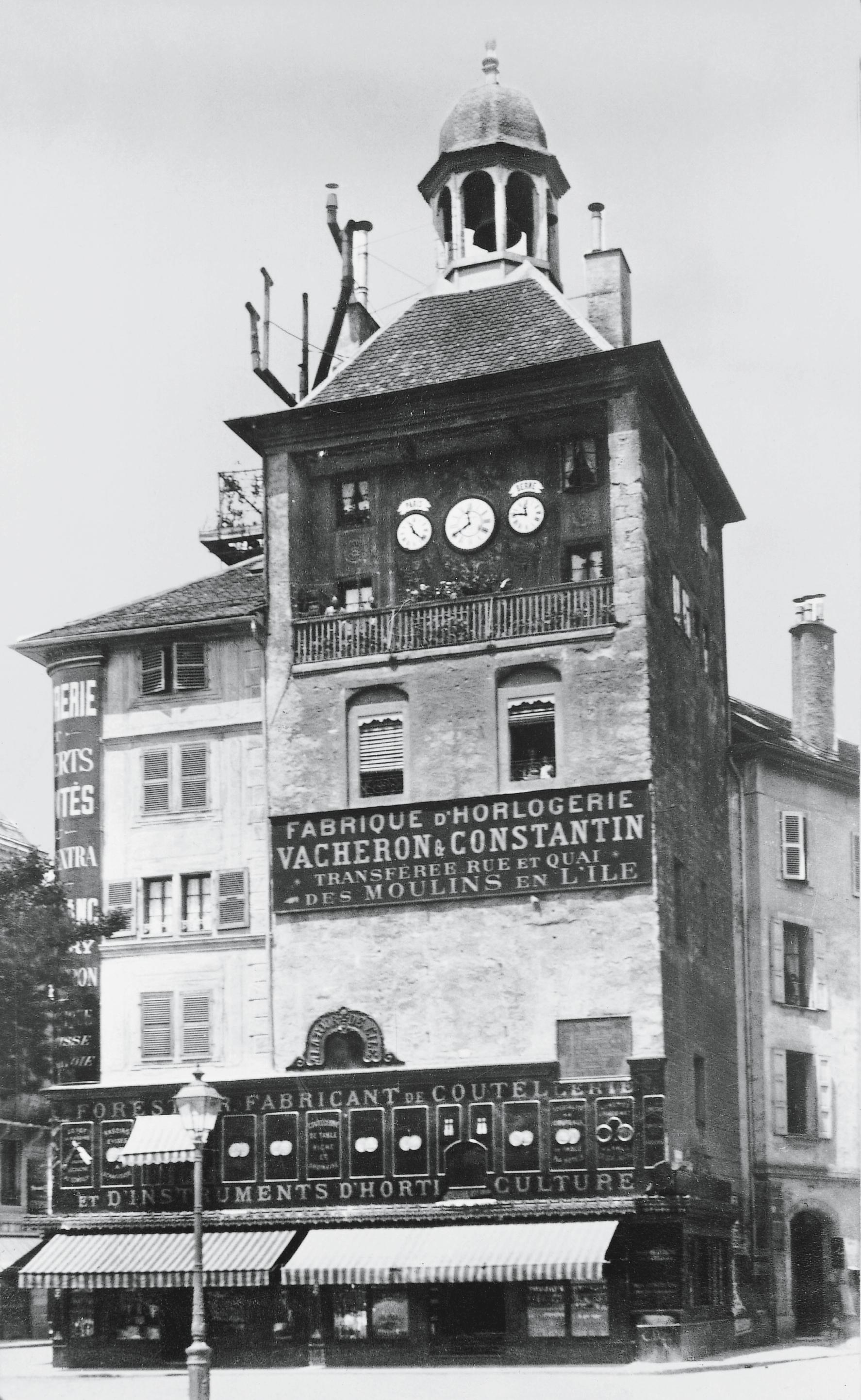 Place country: SwitzerlandPlace city: GenevaPlace description: La Tour de l'île, quai de l'île, around 1875. Having been in the Tour de l'ìle since 1843, in 1875 the firm moved to new premises built by Jean-François Constantin just a stones's throw away, at n°1 quai des Moulins, where it remains to this day.